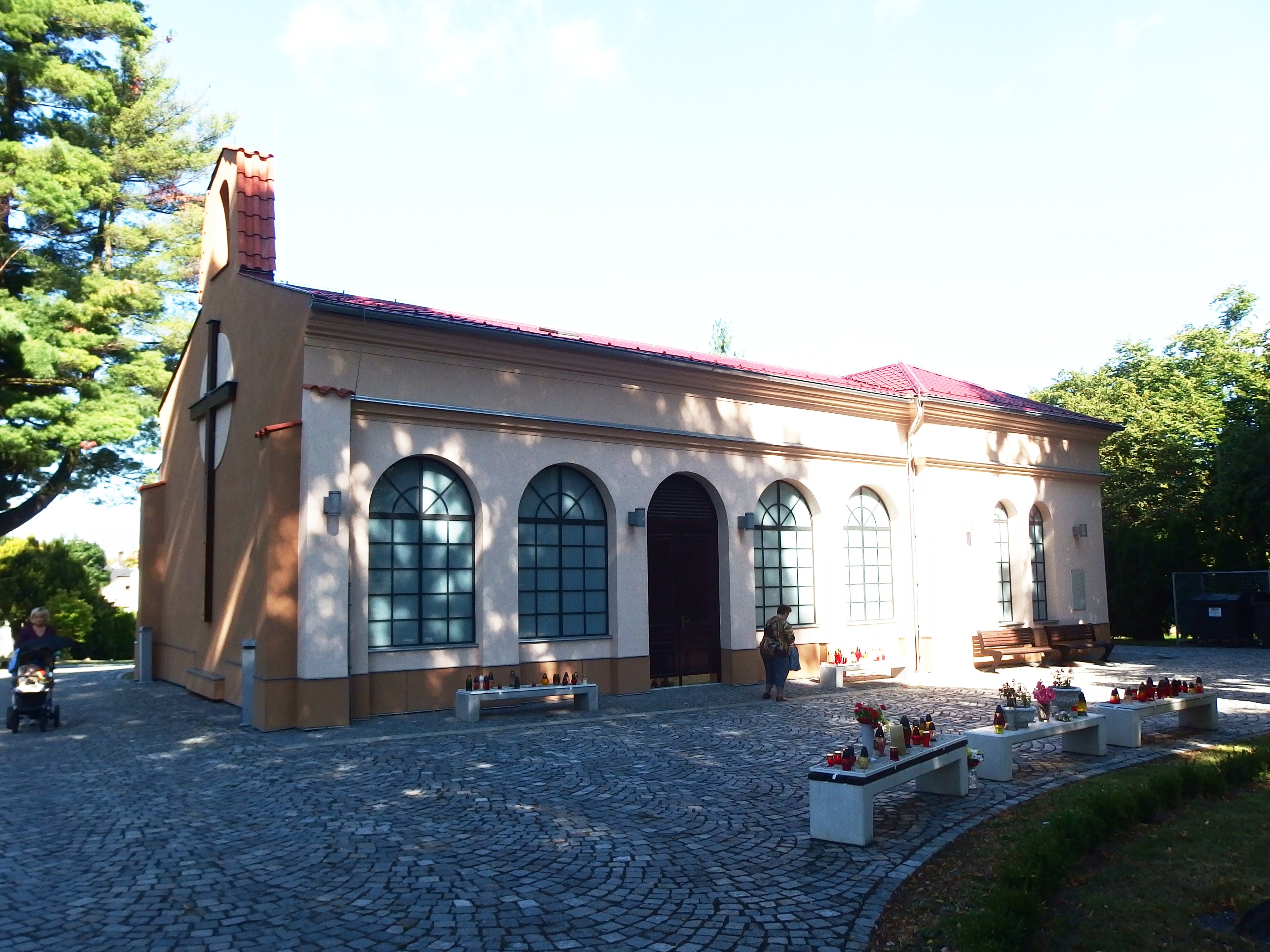 Přerov, Czech Republic.